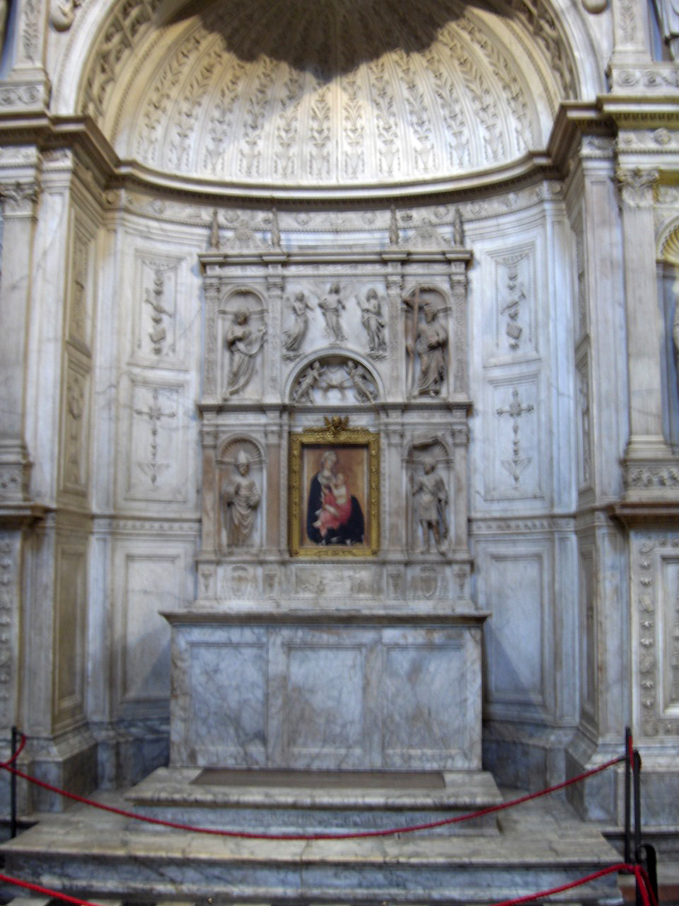 Piccolomini altar by Andrea Bregno; Duomo; Siena, Italy Own photo - photo made on 11 October 2005